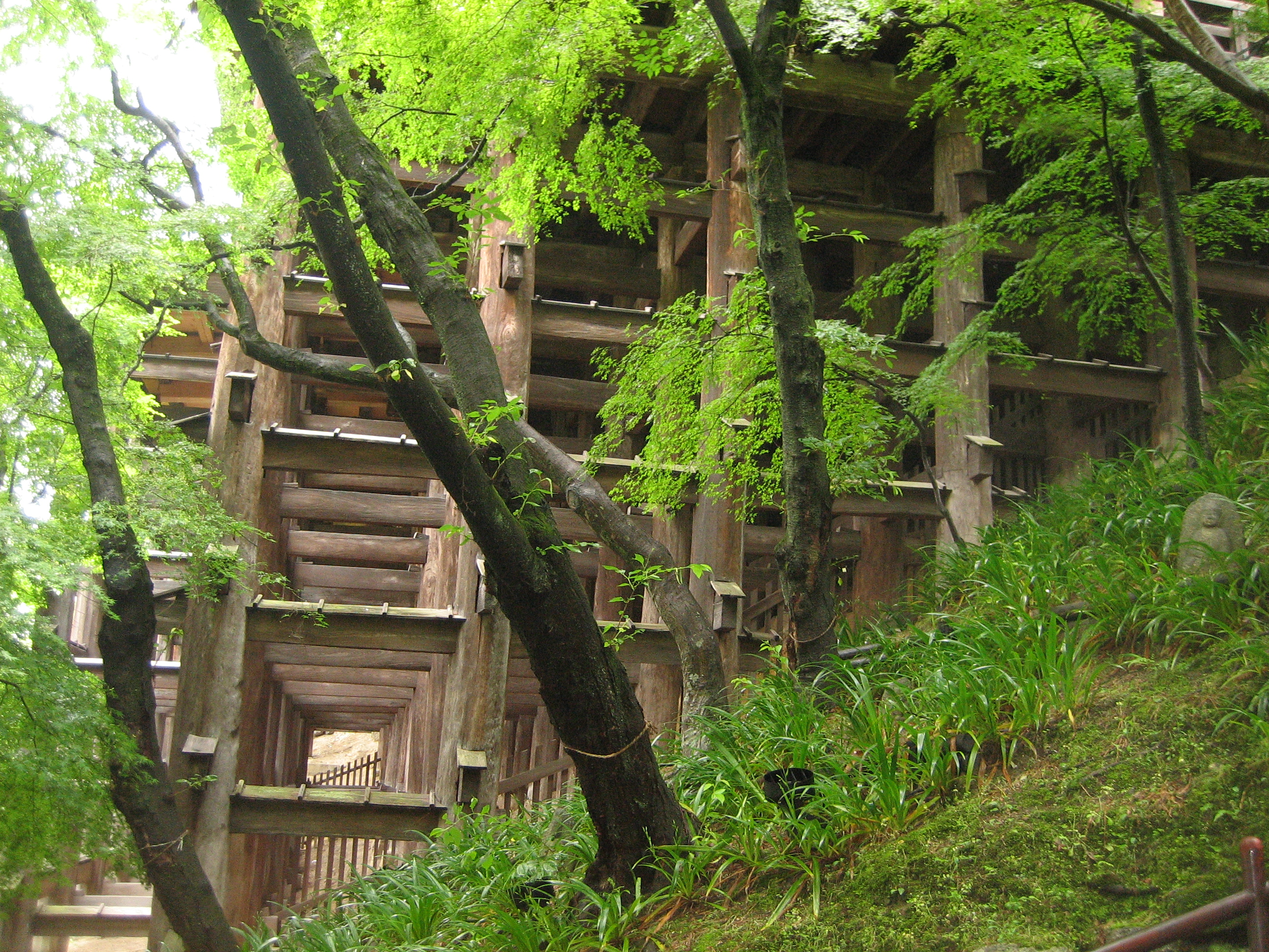 Wooden support of main hall and terrace of Kiyomizu-dera temple in Kyoto, Japan; seen from stairs leading down to Otowa-no-taki.